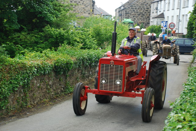 Taith Tractors Madryn Tractor Run, Chwilog